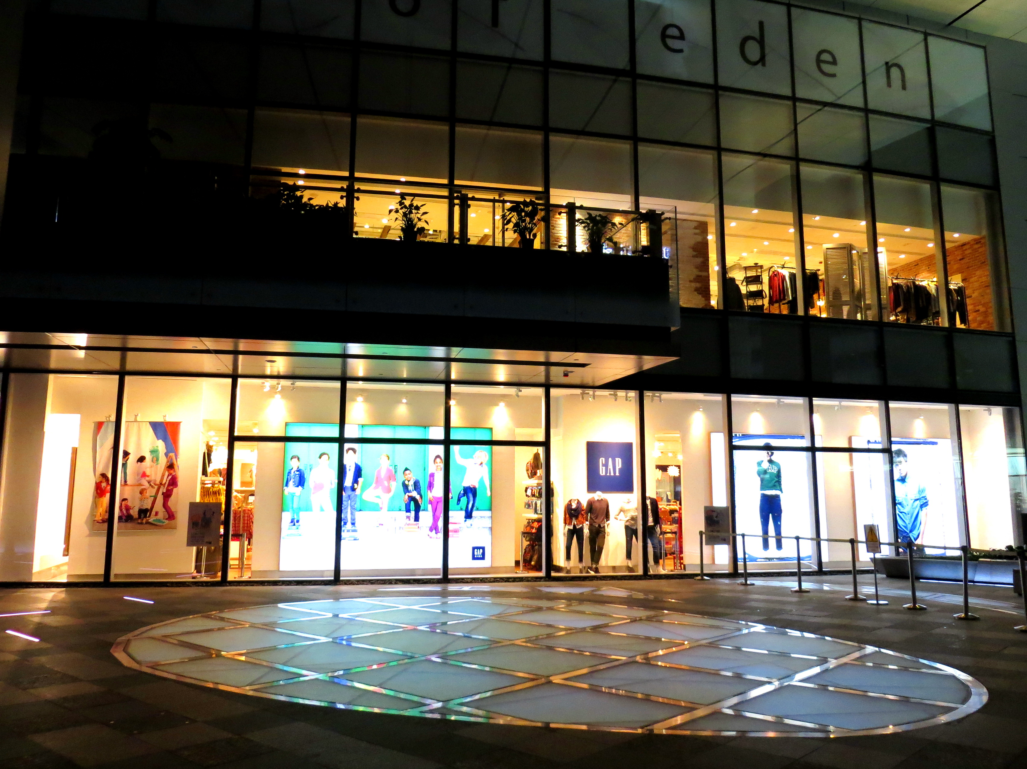 GapKids & babyGap at Level 4, Hysan Place, Causeway Bay, Hong Kong